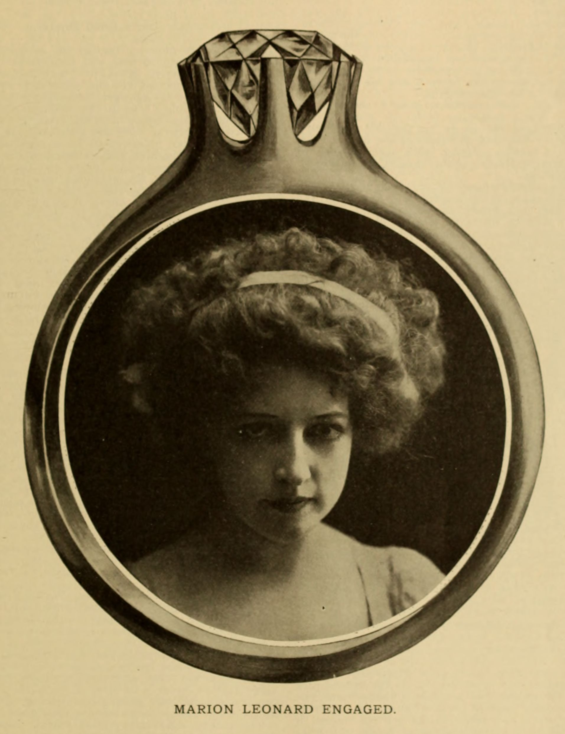 Marion Leonard, The Moving Picture World, November 18th, 1911, p539